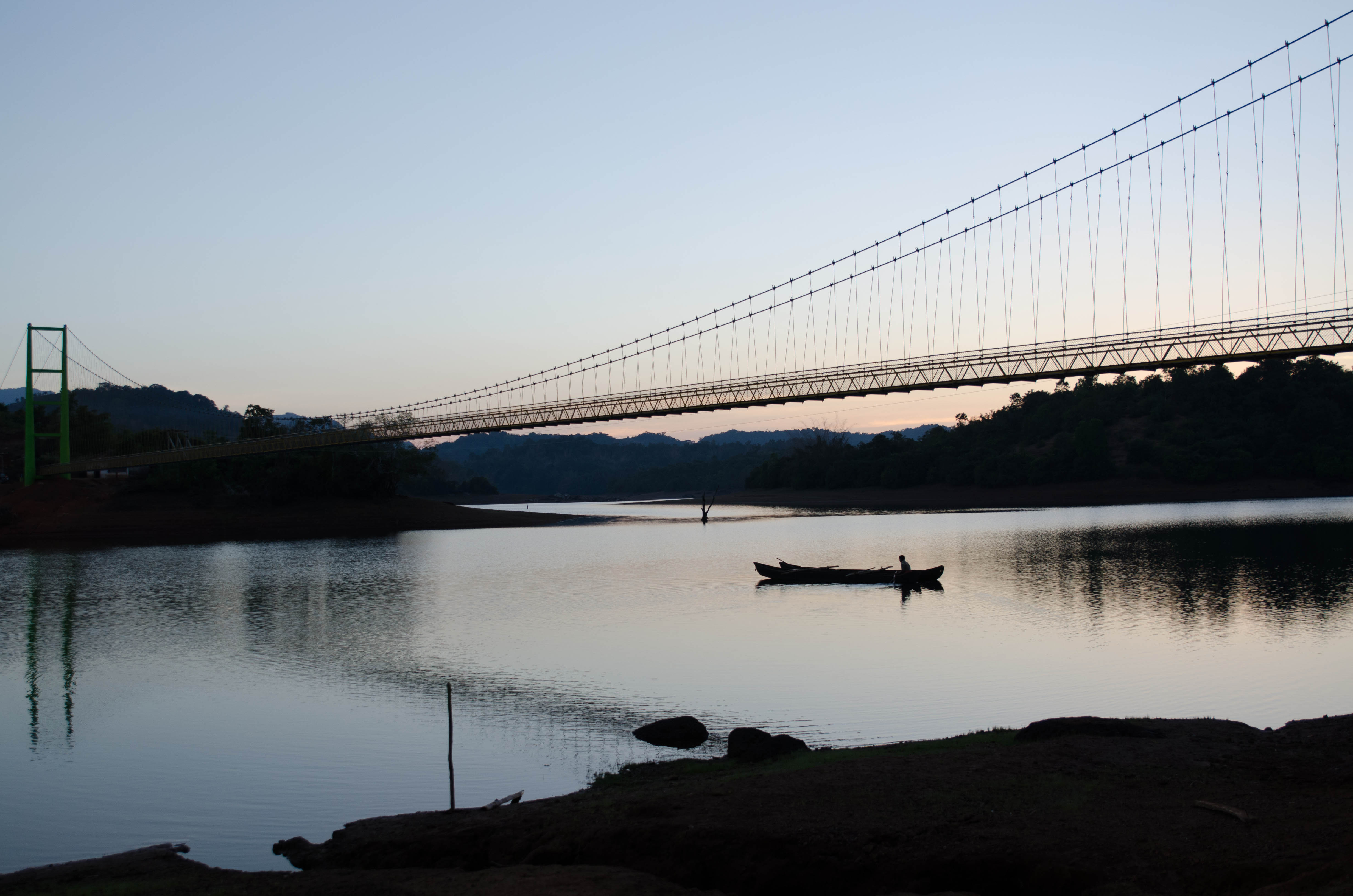 Sharavathi s a river which originates and flows entirely within the state of Karnataka in India. It is one of the few westward flowing rivers of India and a major part of the river basin lies in the Western Ghats. The famous Jog Falls are formed by this river. The river itself and the region around it are rich in biodiversity and are home to many rare species of flora and fauna.